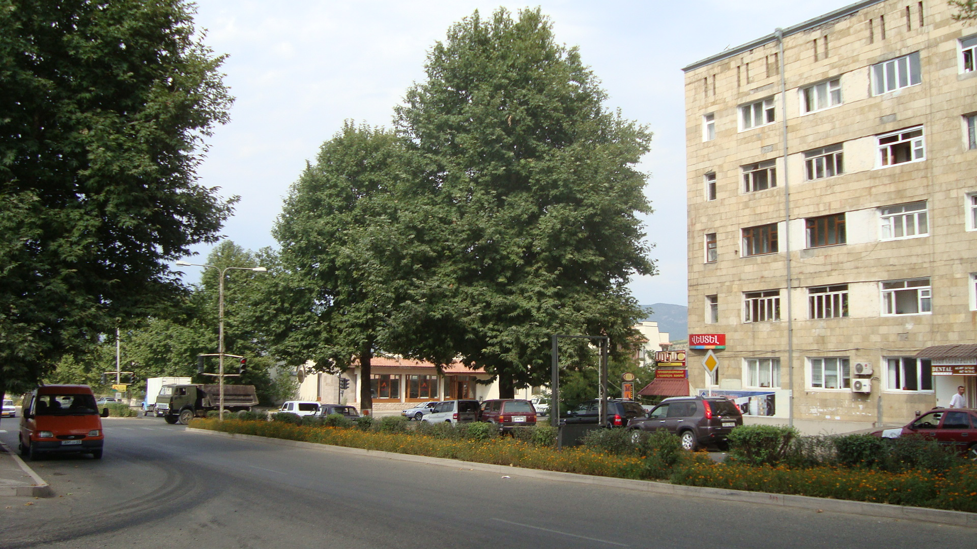 Stepanakert, the capital of Republic of Mountainous Karabakh (Artsakh).